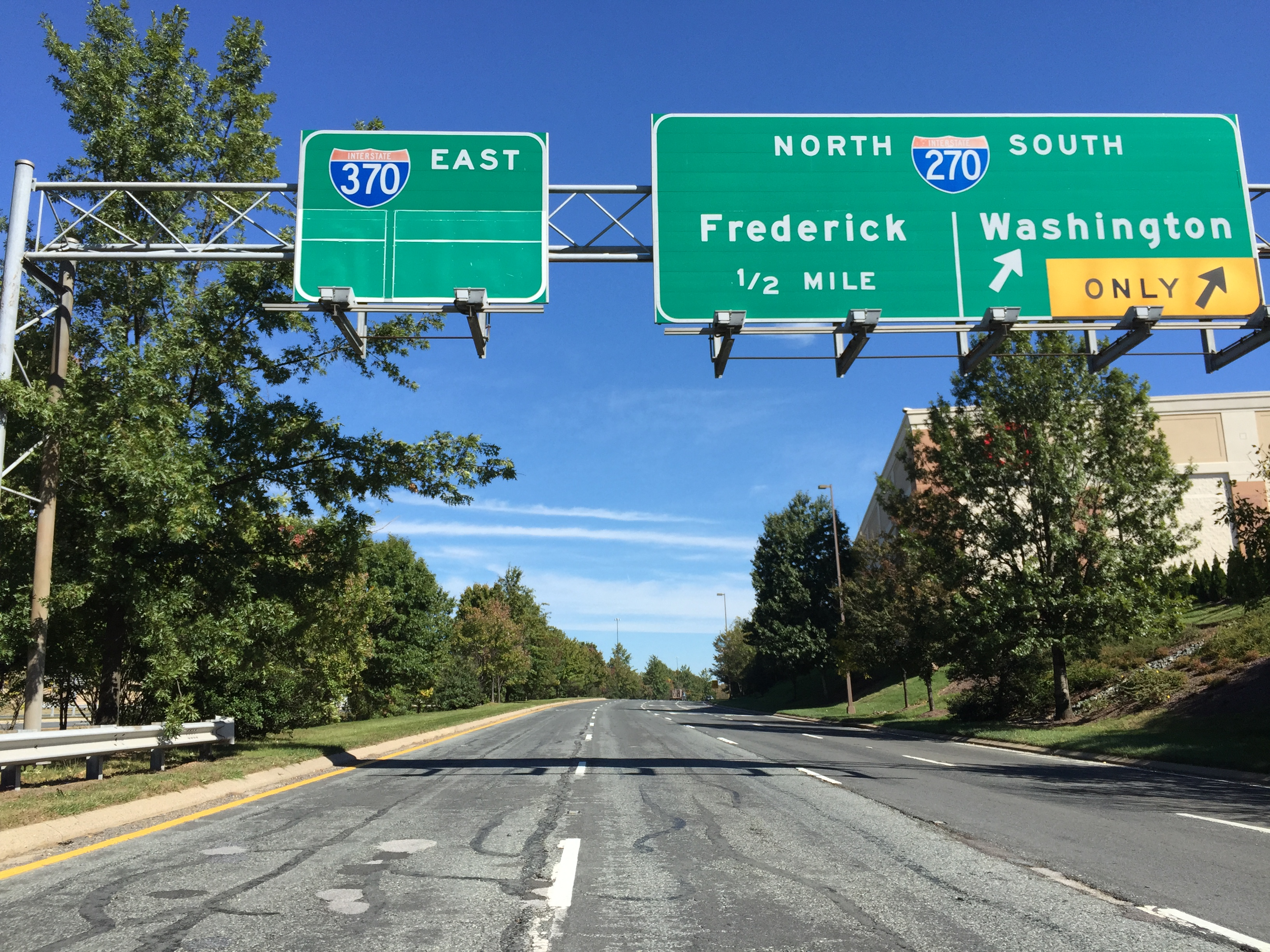 View east at the west end of Interstate 370 in Gaithersburg, Montgomery County, Maryland